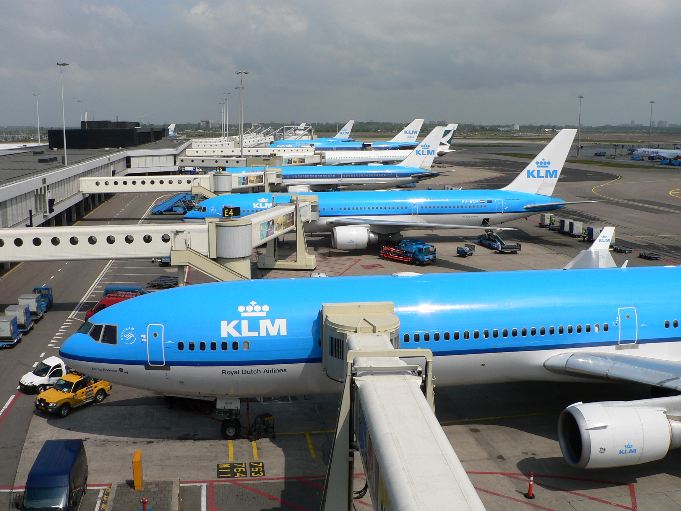 Just an ordinary day playing with the camera at Schiphol Airport (the Netherlands).